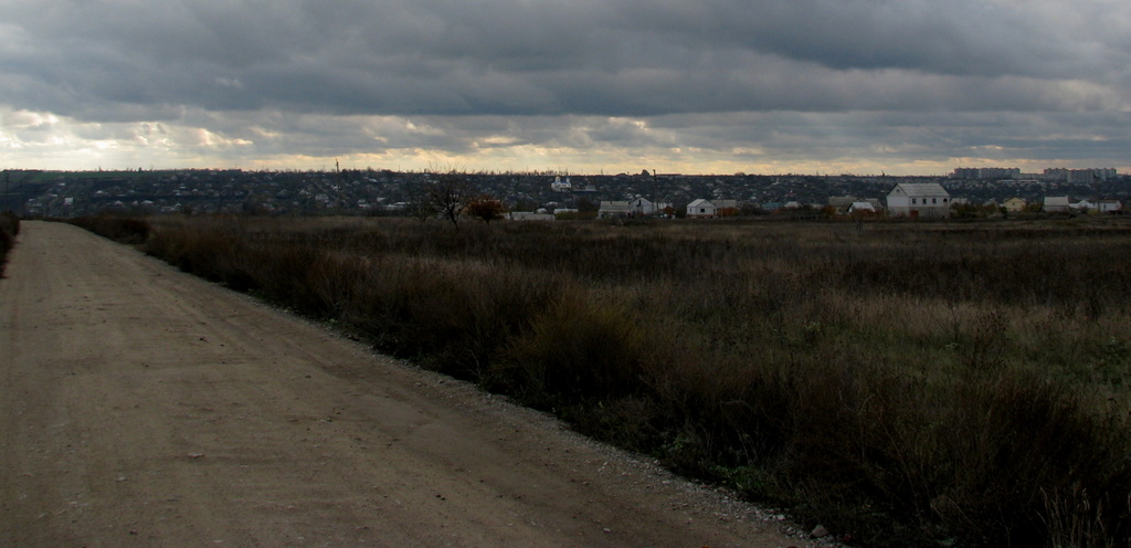 Pervomaisk, Mykolaiv Region, South of Ukraine.